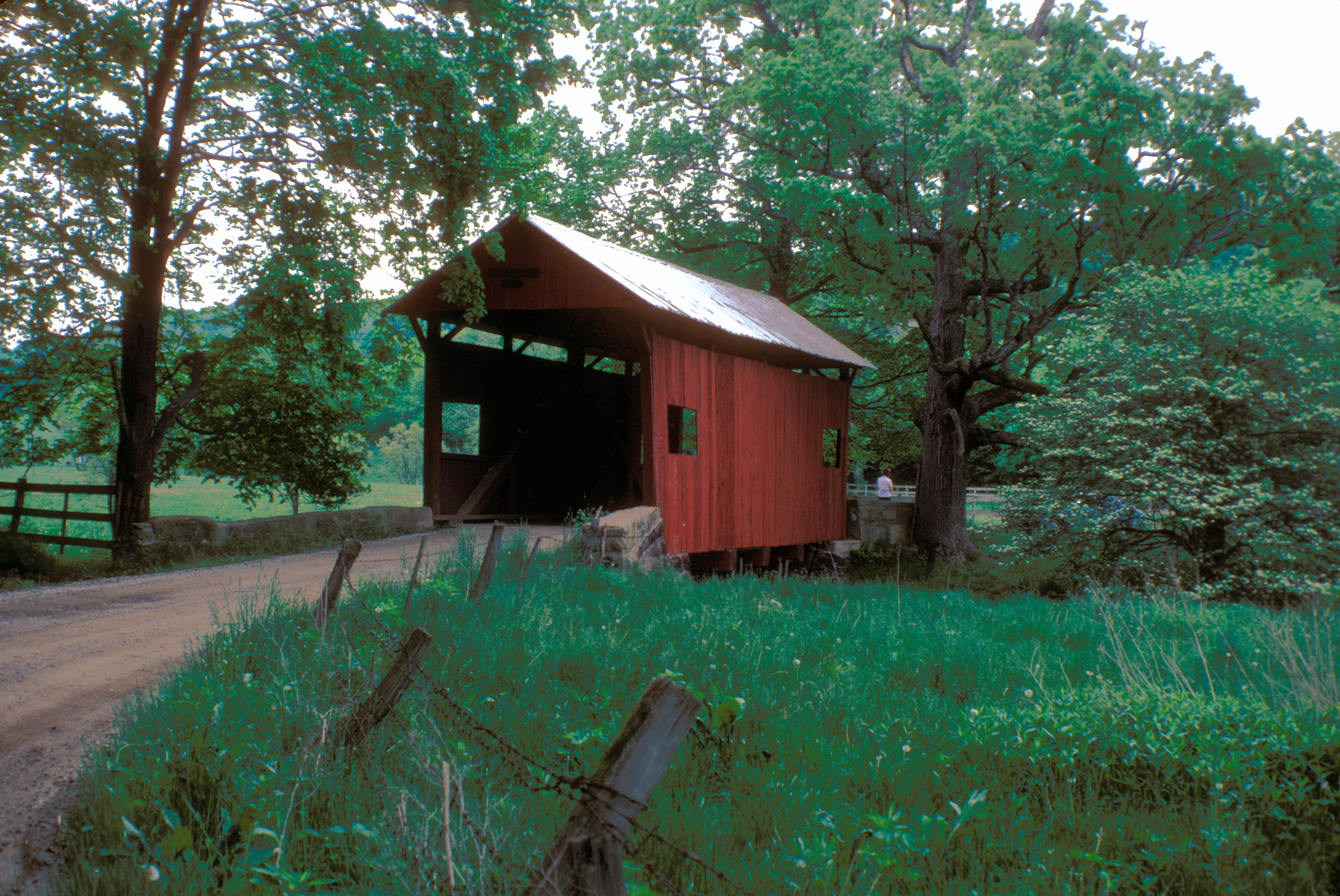 BROWNLEE-STOUT COVERED BRIDGE IN WASHINGTON COUNTY, PENNSYLVANIA